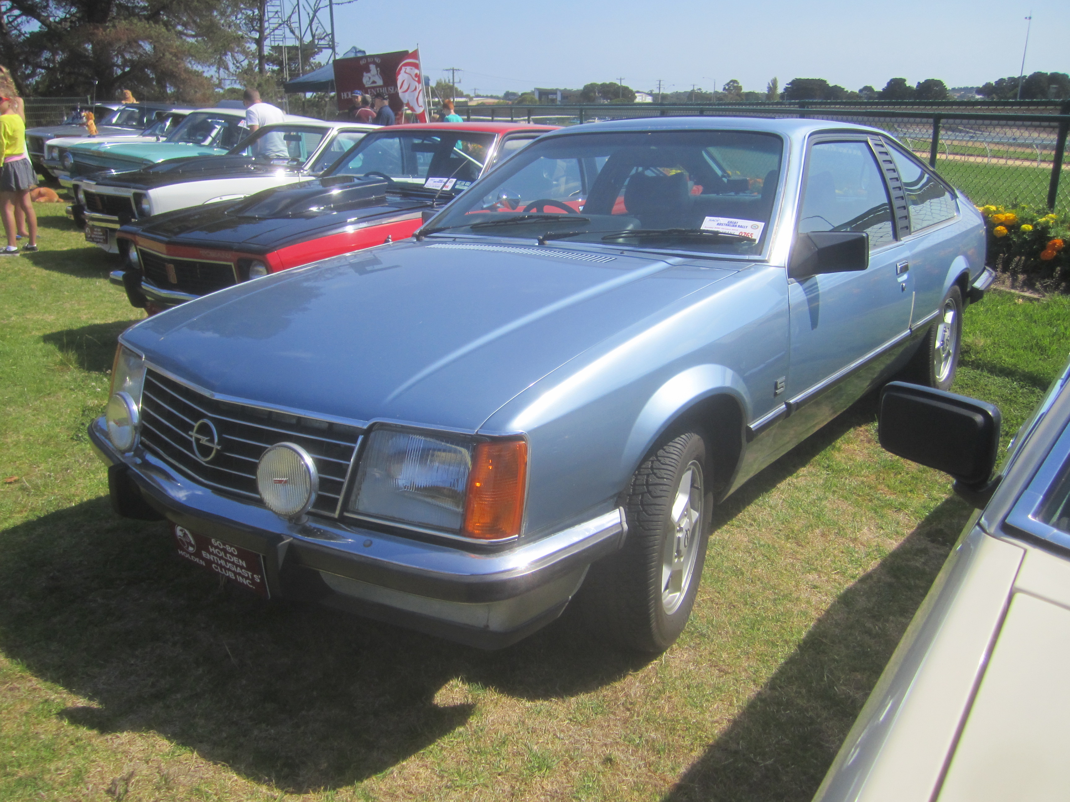 This is where the Australian Commodore all started. The 4 cyl Rekord, and the larger 6 cyl Opel Commodore and Senator were built by General Motors in Germany from 1977-86. The Monza was the 2 door fastback coupe version of the Senator. also sold in England under the Vauxhall name. Engines; 2.0, 2.8 or 3.0 litre 6 cyl